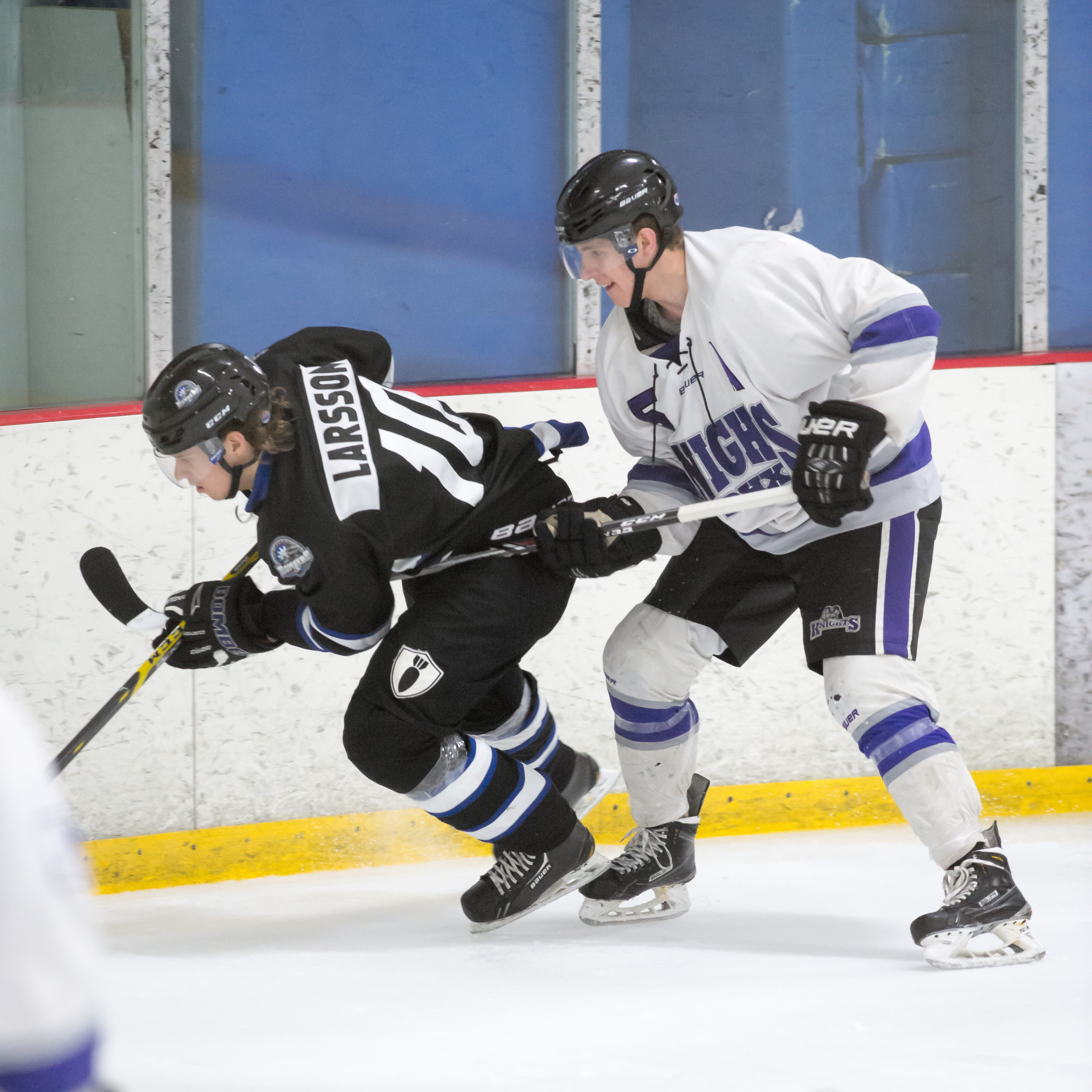 Joel Larsson of the Long Beach Bombers and Davis Dryden of the Phoenix Knights (WSHL). Dryden picks up a minor hooking penalty.